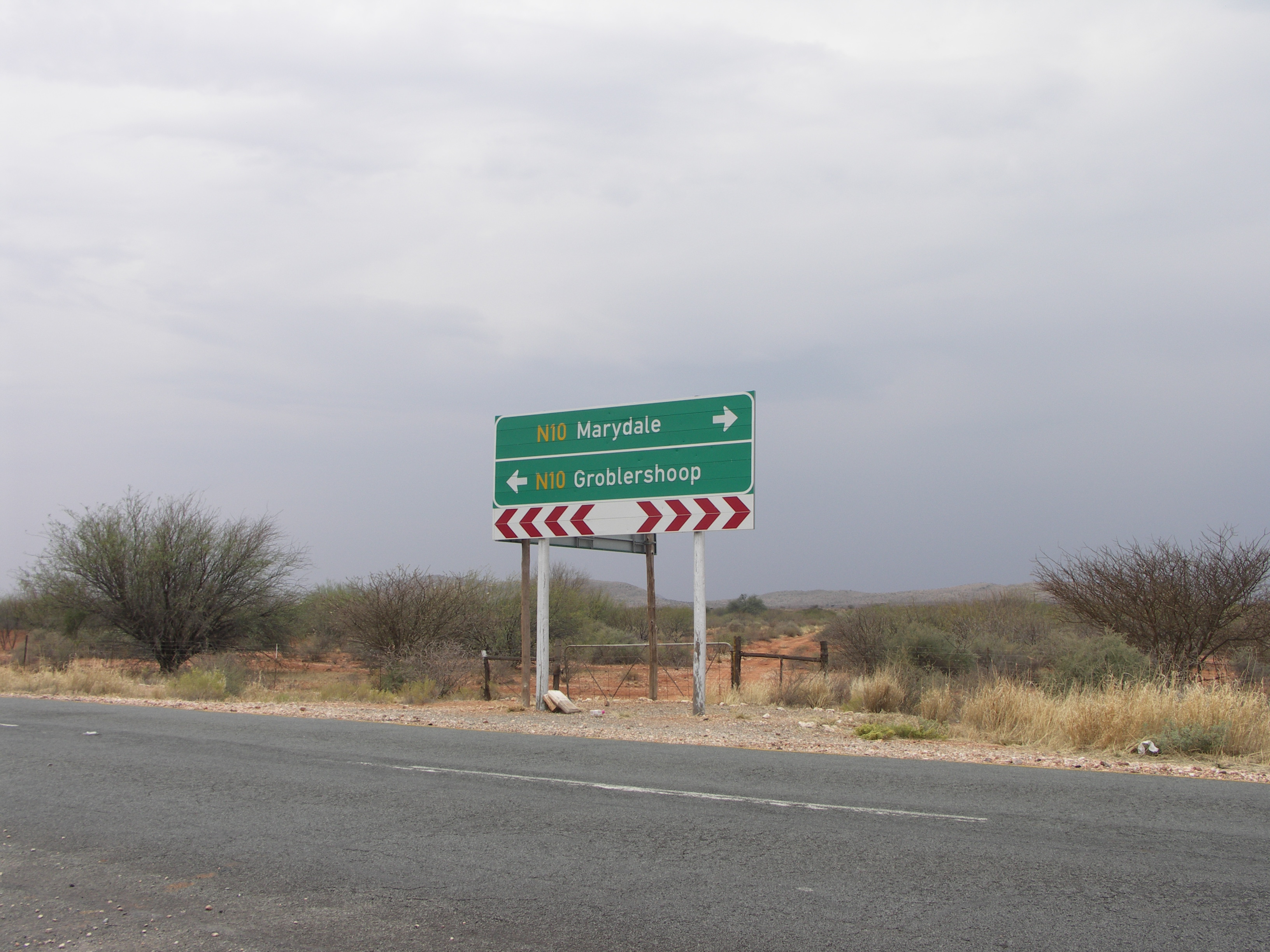 Roadsign on the N10 in the Northern Cape, South Africa